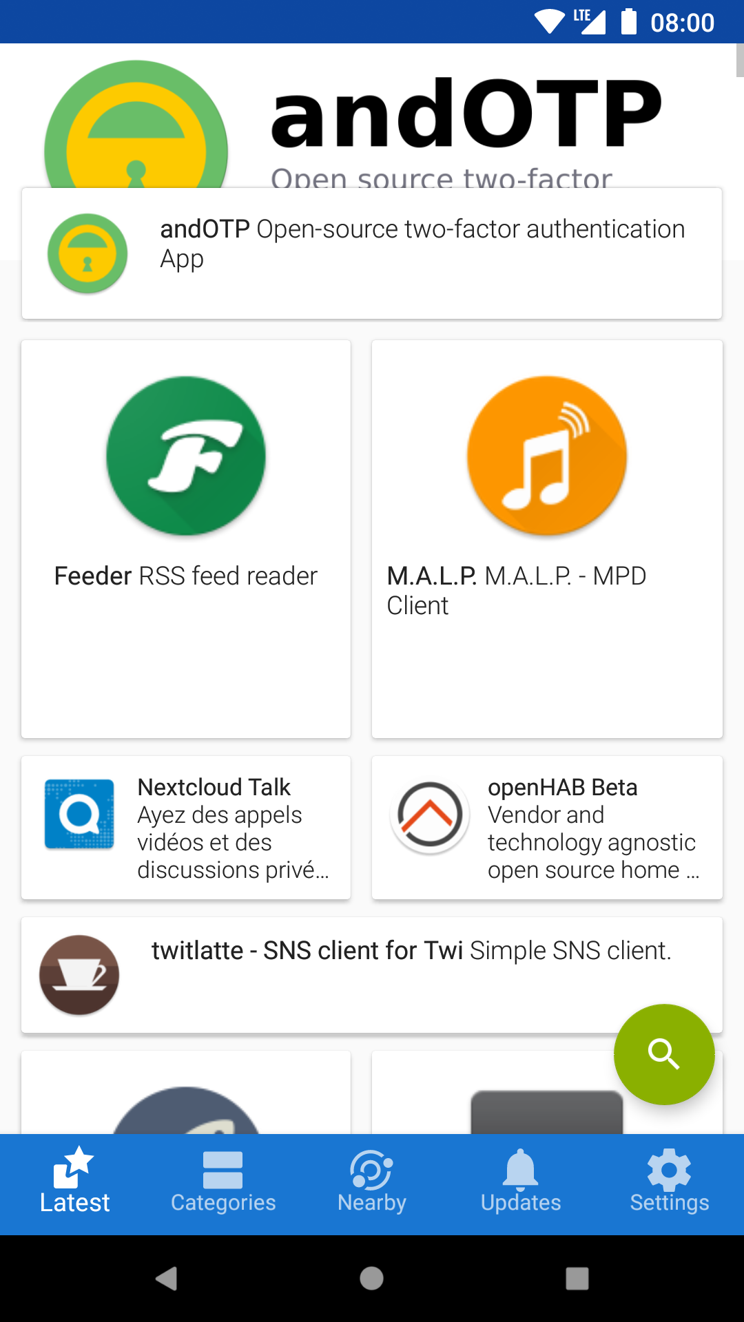 Screenshot of F-Droid 1.2 on Android 8.1 showing the latest apps